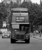 An unidentified London Transport Routemaster bus, operating London Buses route 1 en route to Surrey Docks station. Having come around the Aldwych, it's pictured traveling west along the Strand, heading for Waterloo Bridge.